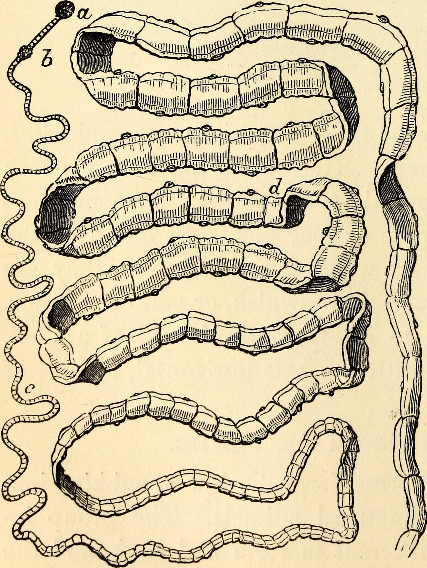 Title: Comparative zoology, structural and systematic : for use in schools and colleges Year: 1883 (1880s) Authors: Orton, James, 1830-1877; Birge, E. A. (Edward Asahel), 1851-1950 Subjects: Zoology; Anatomy, Comparative; Physiology, Comparative Publisher: New York : Harper & Bros. Text Appearing Before Image: 264: COMPARATIVE ZOOLOGY. It has also close relations with the other subkingdoms of the bilaterally symmetrical animals. Through the Poly- zoa and Brachiopoda, it approaches the Mollusca; through the Annelides, the Arthropoda; and through other forms, the Tunicata, and so the Yertebrata. The subkingdom thus stands in the centre of several subkingdoms, with affinities towards all. Nor are indications of connection with Ccelenterata and Echinodermata wanting. The Vermes are bilaterally symmetrical animals,with one or many segments, no jointed legs. They usually have a soft skin, and peculiar excretory organs—the segmental organs. Many of the Worms are parasitic, and most of the En- doparasites belong to this group. There are numerous classes, of which only the most im- portant are mentioned. Class I.—Platyhelminthes. Text Appearing After Image: The Flat - worms include some free forms, as the Plana- ria, common in fresh water, and the Tape- worms and Flukes among the parasites. The Tape - worm consists of the so- called head—the proper worm — and the body segments, I Fig. 216 Tape-worm (Taenia solium): a, head; &, c, d, segments of the body. Fig. 217—Planarian worm.